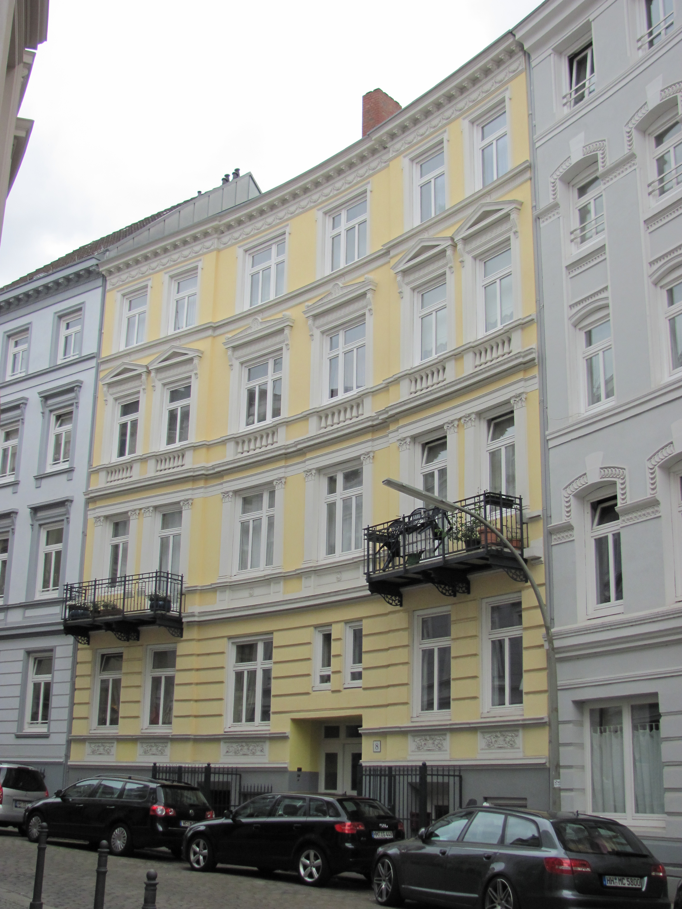 Brüderstraße 8 in Hamburg-Neustadt